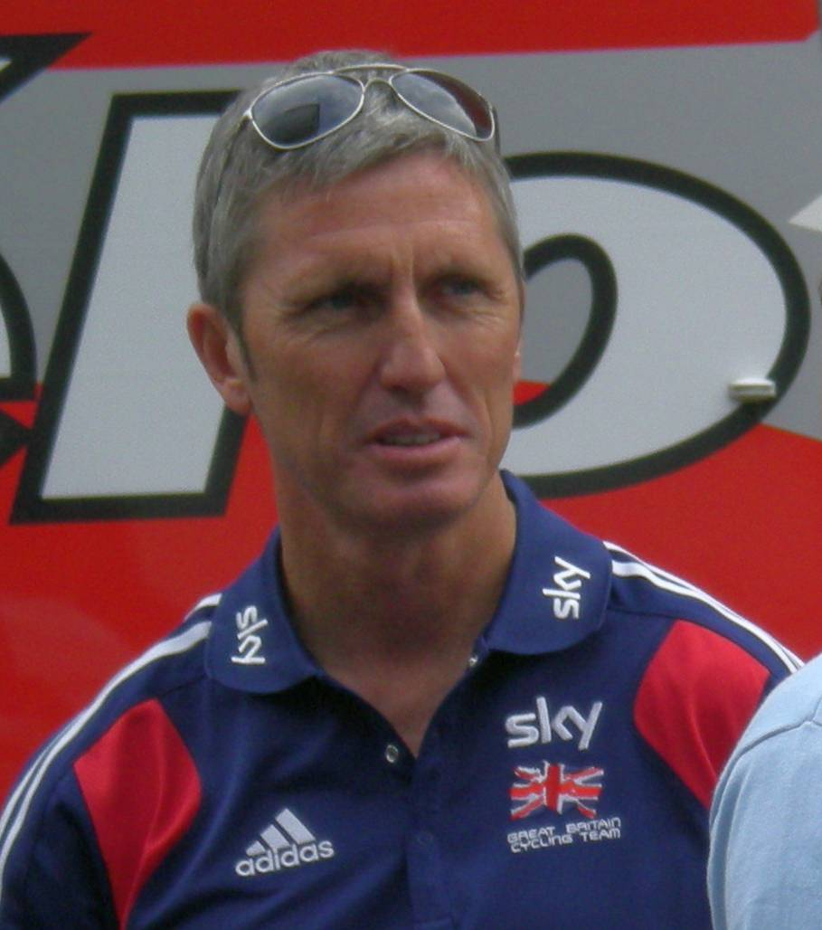 Scott Sunderland at 2009 Tour of Britain